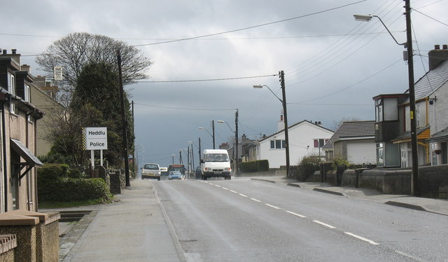 The A5 - the main street of the village of Gaerwen This street is much quieter these days now that the vast bulk of the traffic goes along the A55 expressway which runs parallel with A5. For decades, with the sheer volume of traffic, Gaerwen was a notorious bottle-neck.